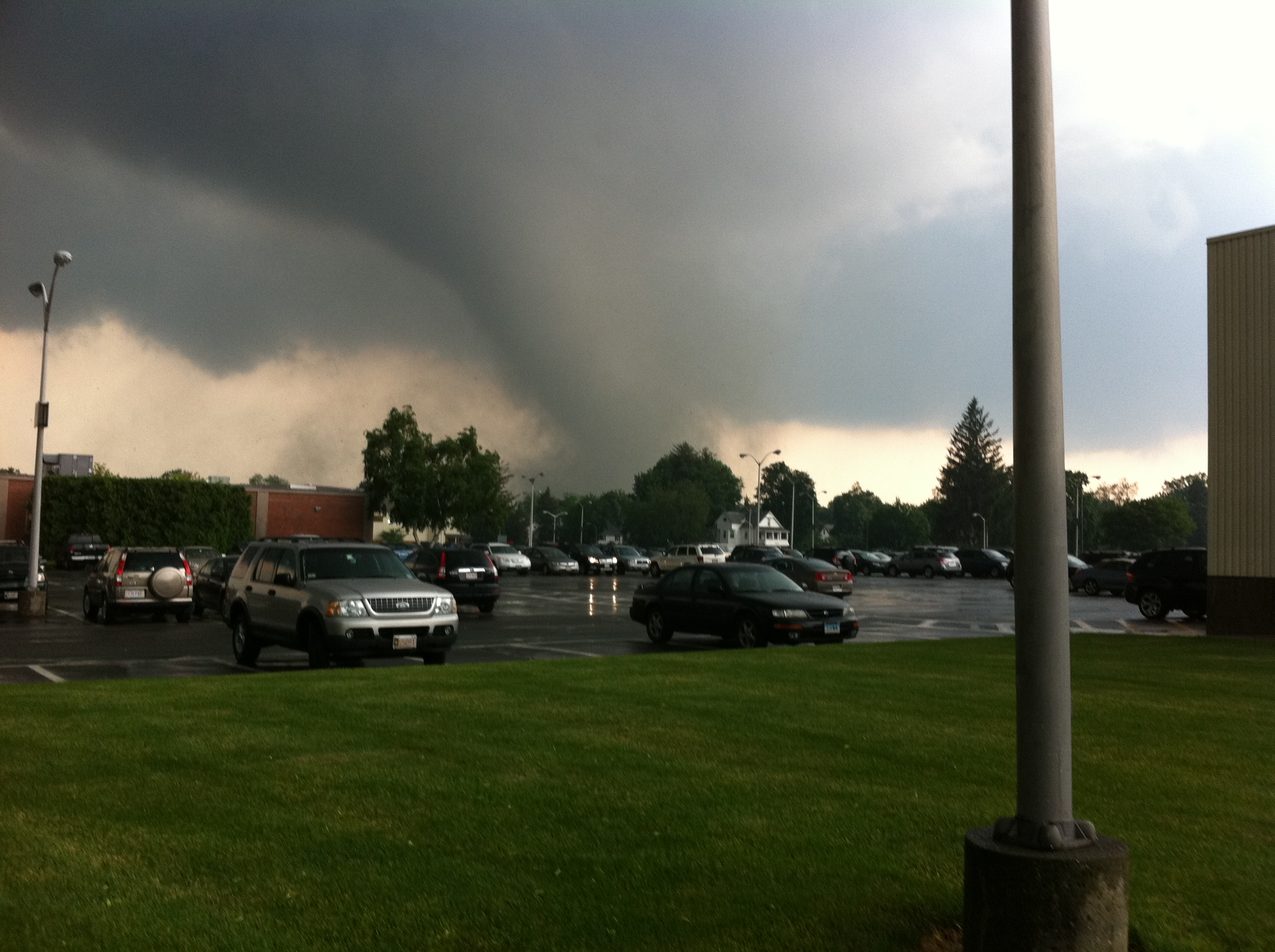 Tornado in Springfield rips through a neighborhood behind an office building.